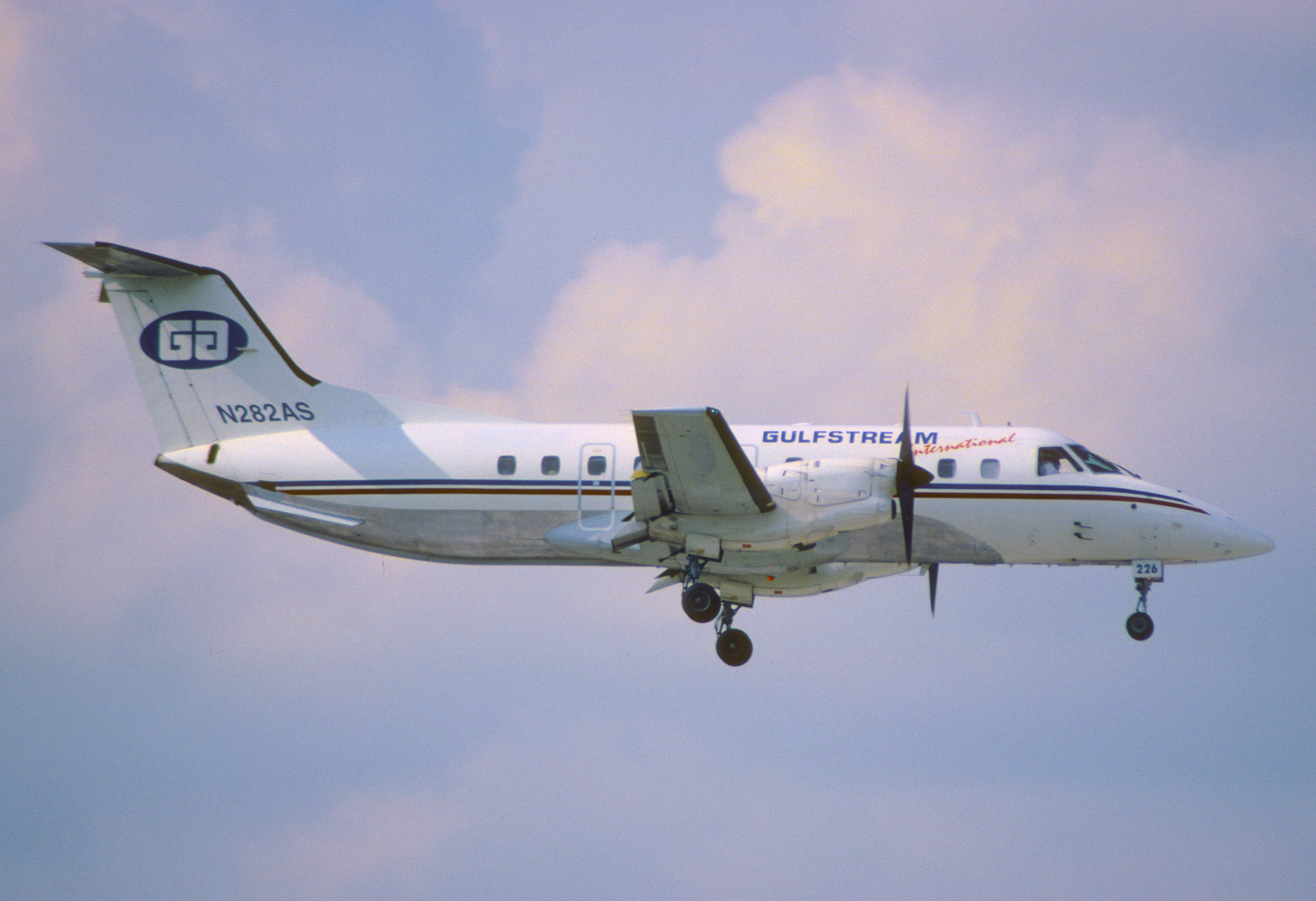 374cb - Gulfstream International Airlines Embraer 120ER Brasilia; N282AS@MIA;31.08.2005